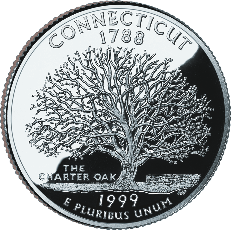 Removed background, cropped, and converted to PNG with Macromedia Fireworks. This image depicts a unit of currency issued by the United States of America. If Fraudulent use of this image is punishable under applicable counterfeiting laws. As listed by the United States Secret Service at money illustrations, the Counterfeit Detection Act of 1992, Public Law 102-550, in Section 411 of Title 31 of the Code of Federal Regulations (31 CFR 411), permits color illustrations of U.S. currency provided:1. The illustration is of a size less than three-fourths or more than one and one-half, in linear dimension, of each part of the item illustrated;2. The illustration is one-sided; and3. All negatives, plates, positives, digitized storage medium, graphic files, magnetic medium, optical storage devices, and any other thing used in the making of the illustration that contain an image of the illustration or any part thereof are destroyed and/or deleted or erased after their final use. Certain coins contain copyrights licensed to the U.S. Mint and owned by third parties or assigned to and owned by the U.S. Mint [1]. For the United States Mint circulating coin design use policy, see [2]; for the policy on the 50 State Quarters, see [3]. Also: COM:ART #Photograph of an old coin found on the Internet